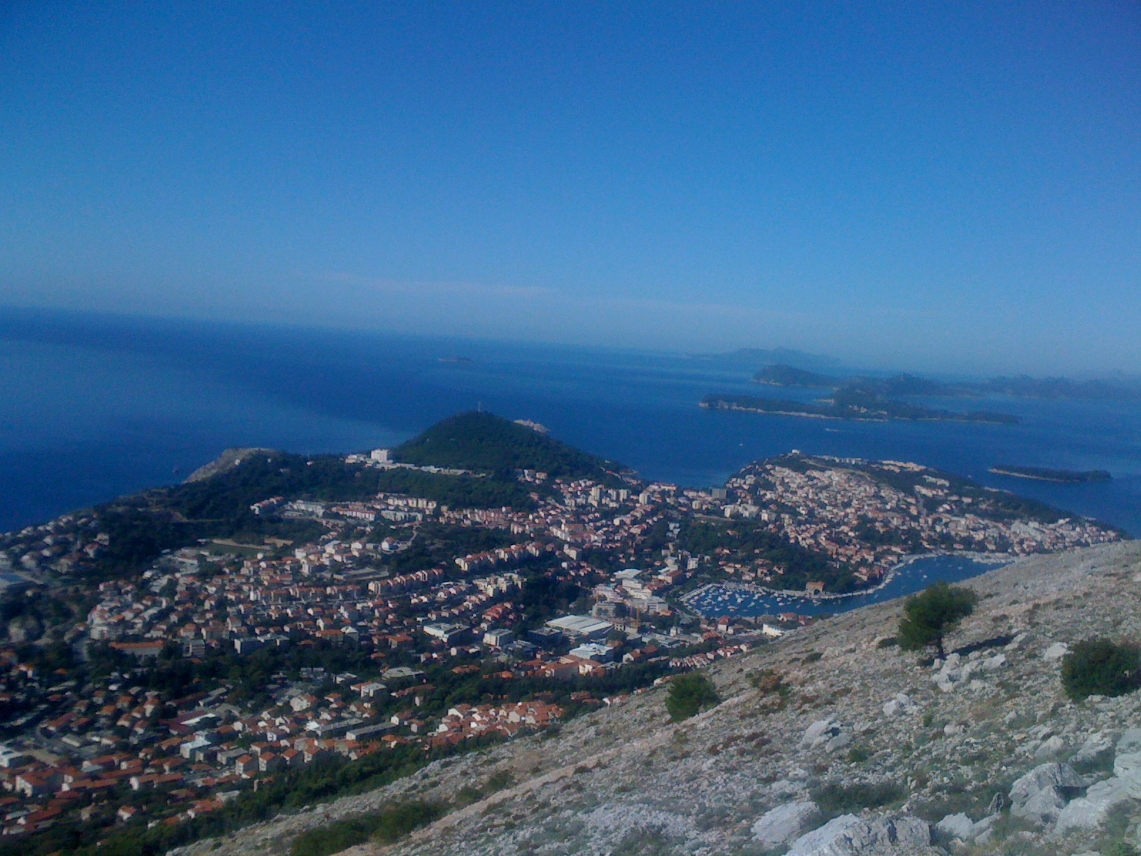 Panorama photo of Dubrovnik